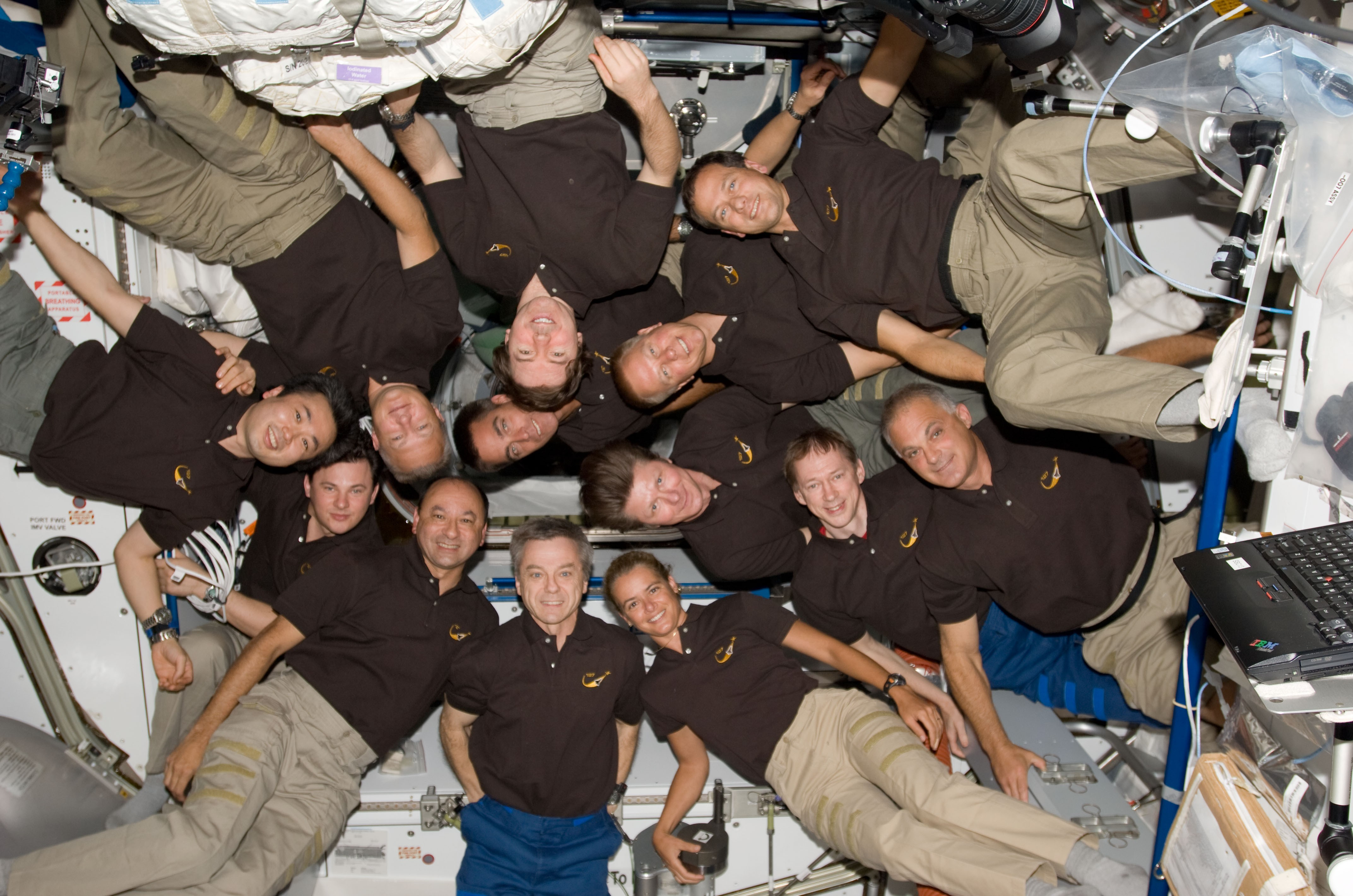 A record 13 astronauts and cosmonauts assemble for a shuttle-station group photo on the orbital outpost. The STS-127 Endeavour crew includes astronauts Mark Polansky, Doug Hurley, Christopher Cassidy, Tom Marshburn and Dave Wolf along with Japanese Aerospace Exploration Agency astronaut Koichi Wakata and Canadian Space Agency astronaut Julie Payette. The station crew members are Russian Federal Space Agency cosmonauts Gennady Padalka and Roman Romanenko, Canadian Space Agency astronaut Robert Thirsk, European Space Agency astronaut Frank de Winne and astronauts Mike Barratt and Tim Kopra.